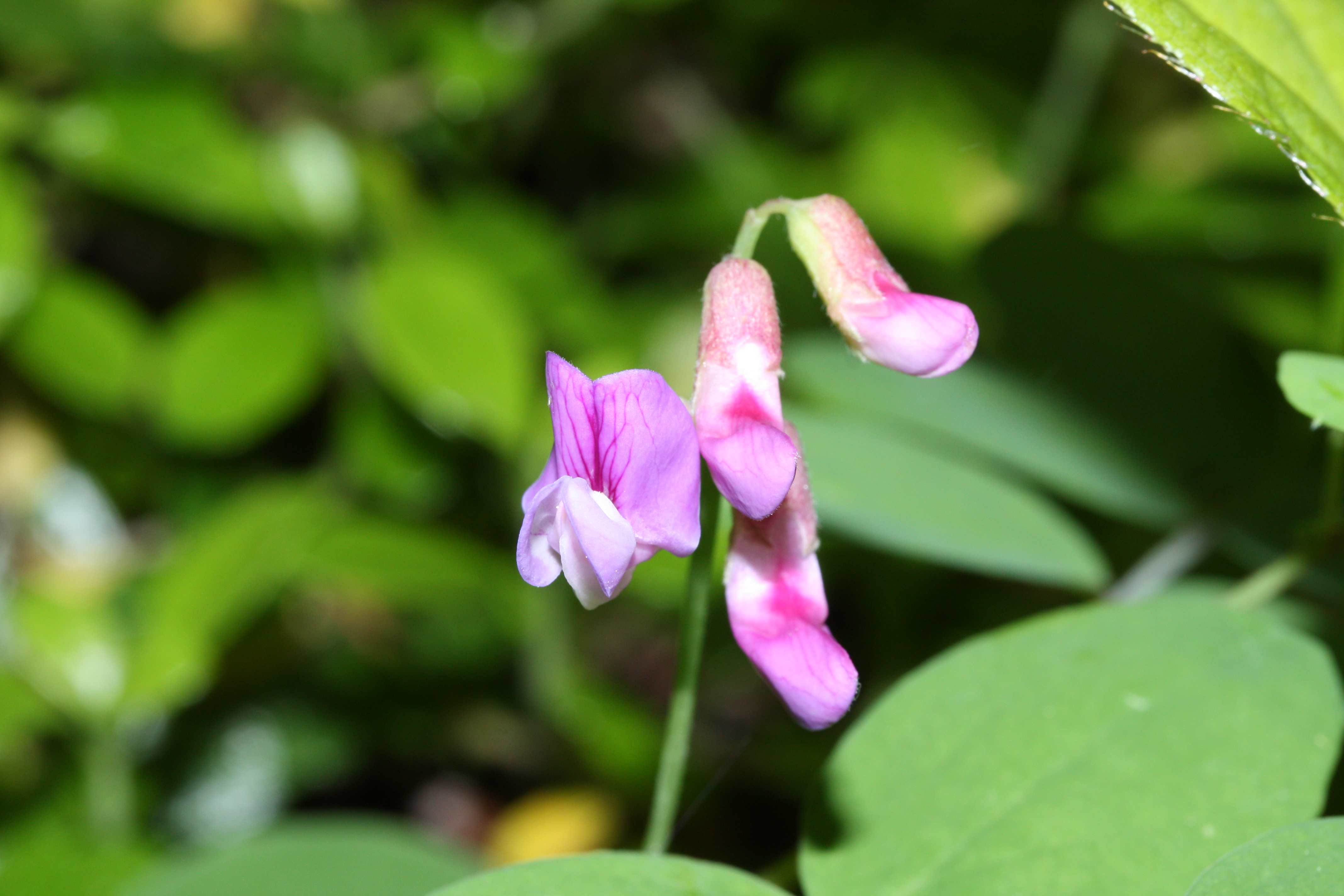 Sierra Pea, Cusick's Pea